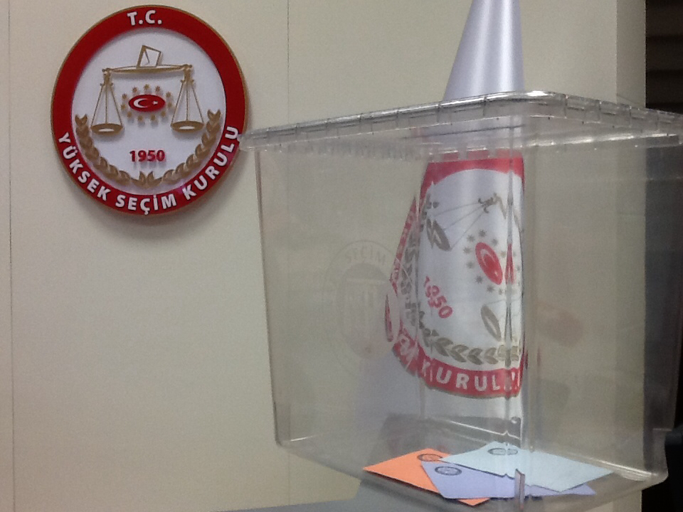 A ballot box for 2014 local elections in Turkey.